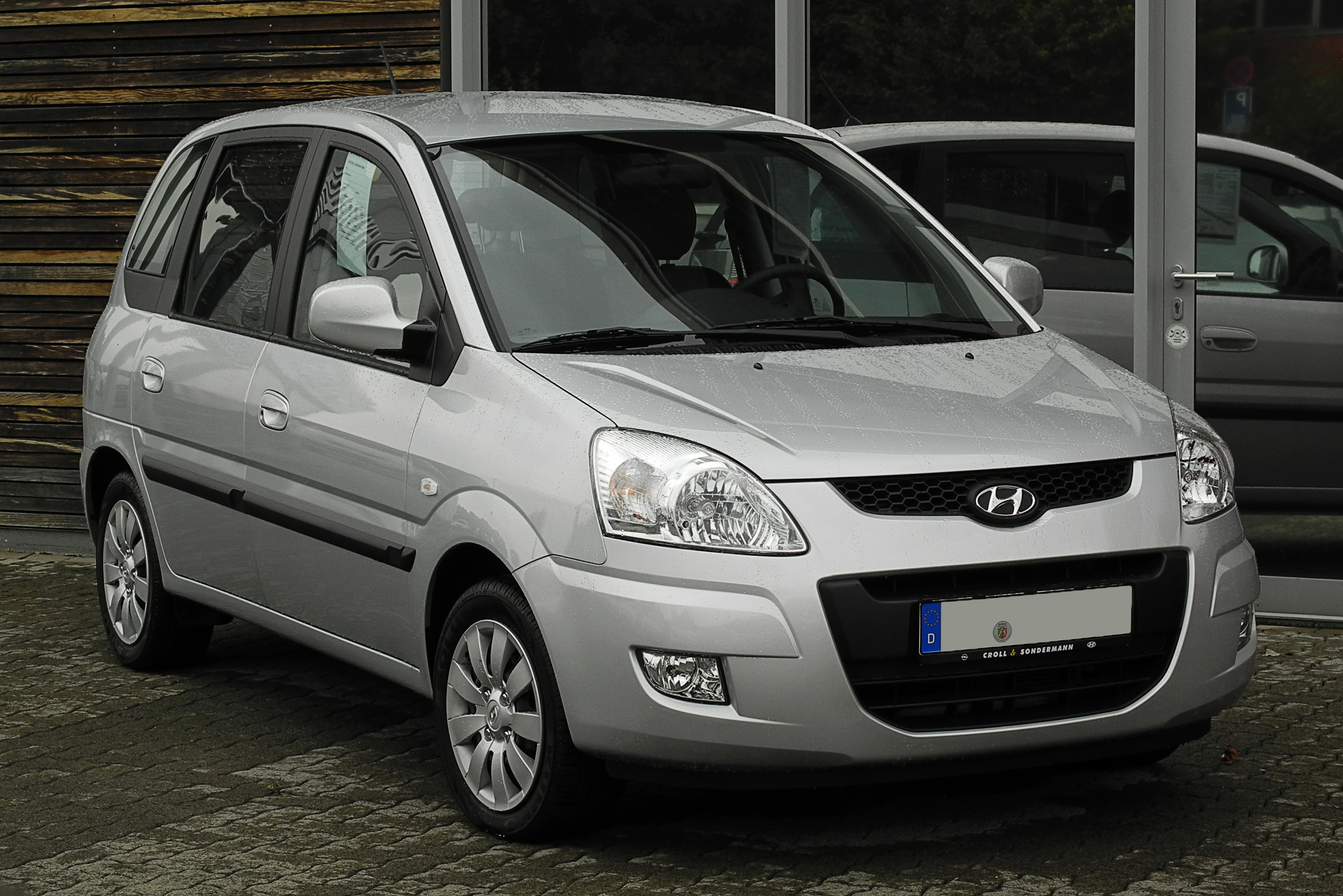 Hyundai Matrix 1.6 Comfort (2. Facelift)